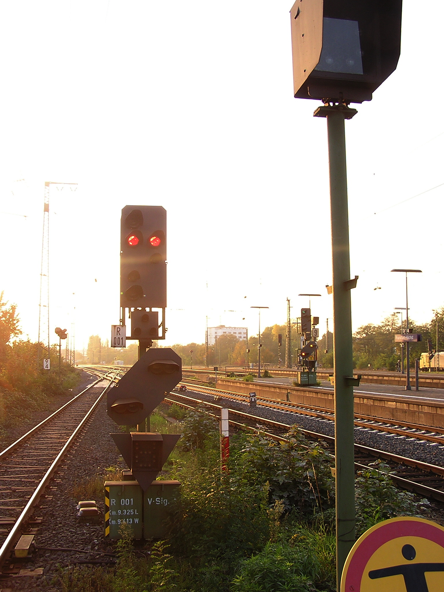 Main signal in the station Frankfurt-Höchst